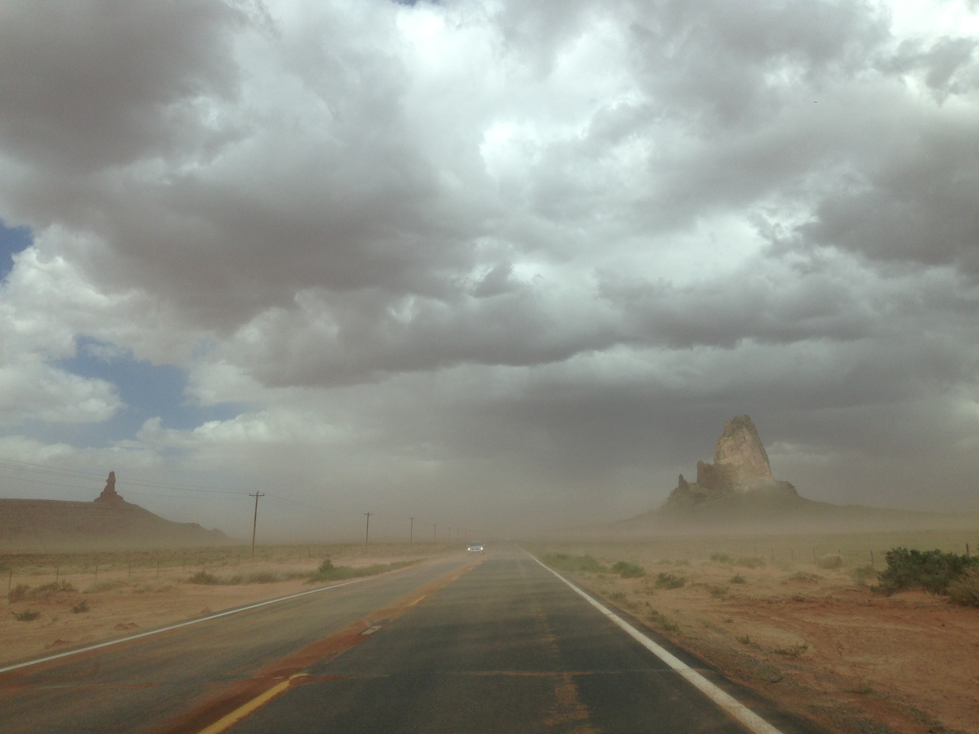 View north along U.S. Route 163 towards Agathla Peak and Owl Rock with dust and sand blowing across the highway